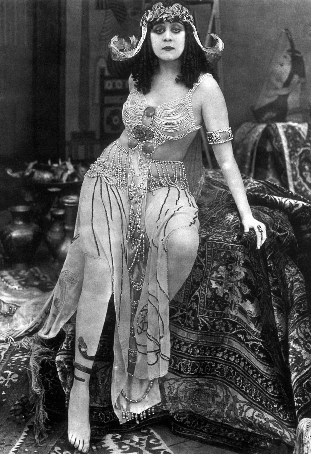 Actress Theda Bara in one of her famous risque costumes in a promotional still from the 1917 film Cleopatra, which has since been lost.